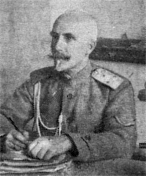 General Alexey Archangelsky (1872-1959), Russia, Whites